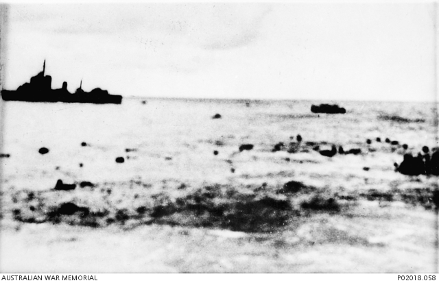 East Coast of Malaya. 1941-12-10. Heads of crew members of HMS Prince of Wales and HMS Repulse bobbing in the water as a destroyer moves in for the rescue. Some 2320 men from both ships were saved after the sinking of the ships by Japanese bomber aircraft.